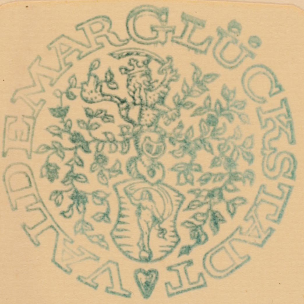 Ex libris of Valdemar Glückstadt, Danish businessman, designed by Knud V. Engelhardt